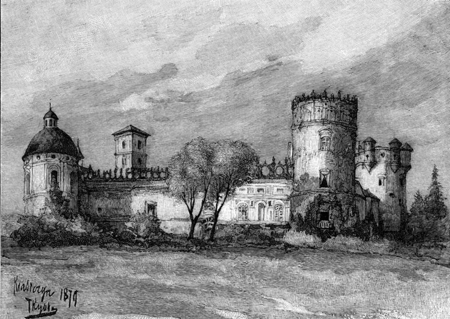 Krasiczyn Castle (woodcut illustration)